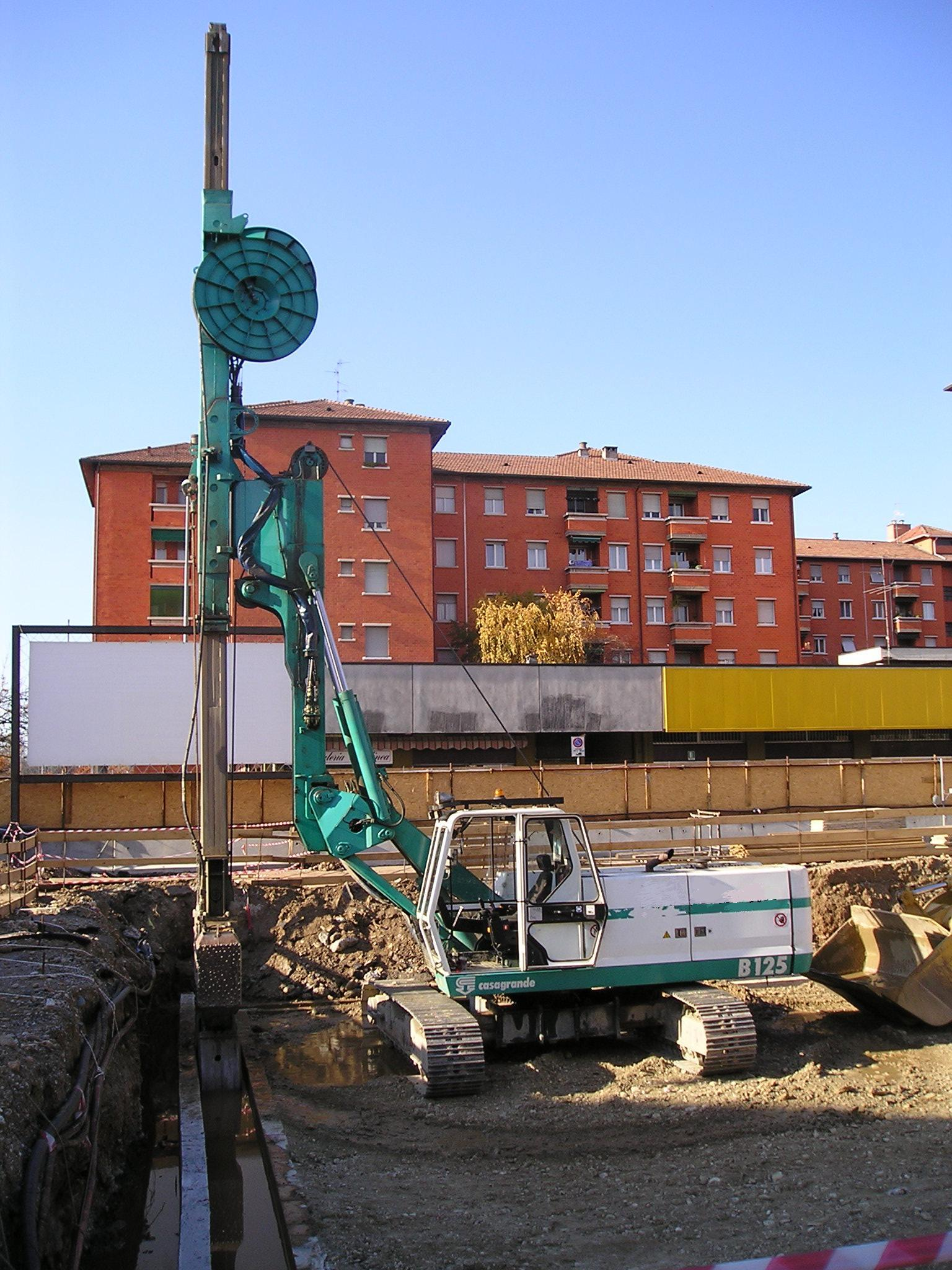 Slurry wall digging by clamshell-shaped digger. [1]